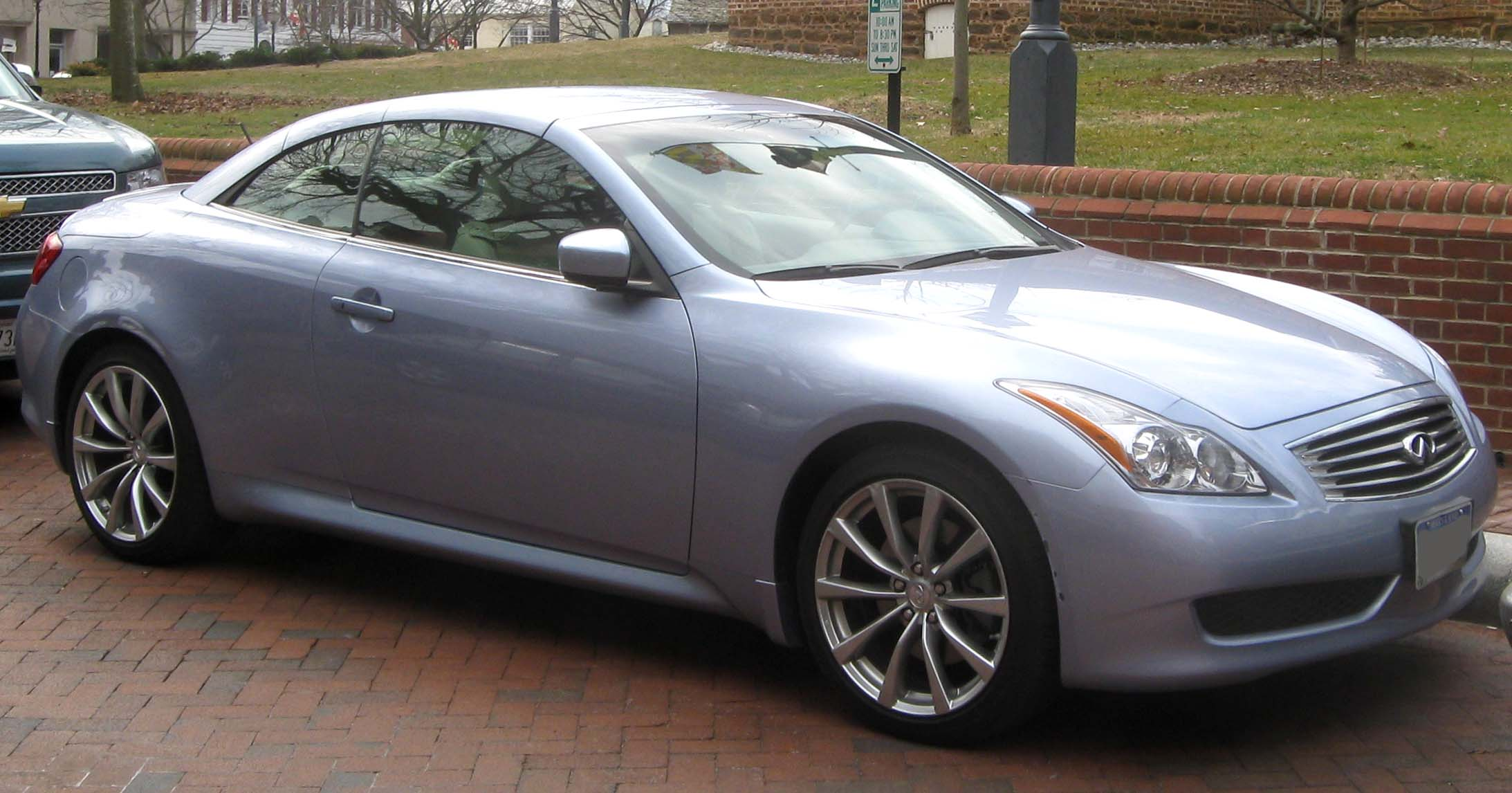 Infiniti G37 photographed in Annapolis, Maryland, USA.